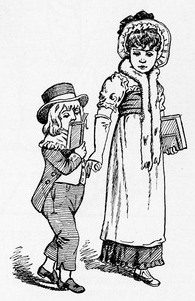 (Removed after reusableart request.)